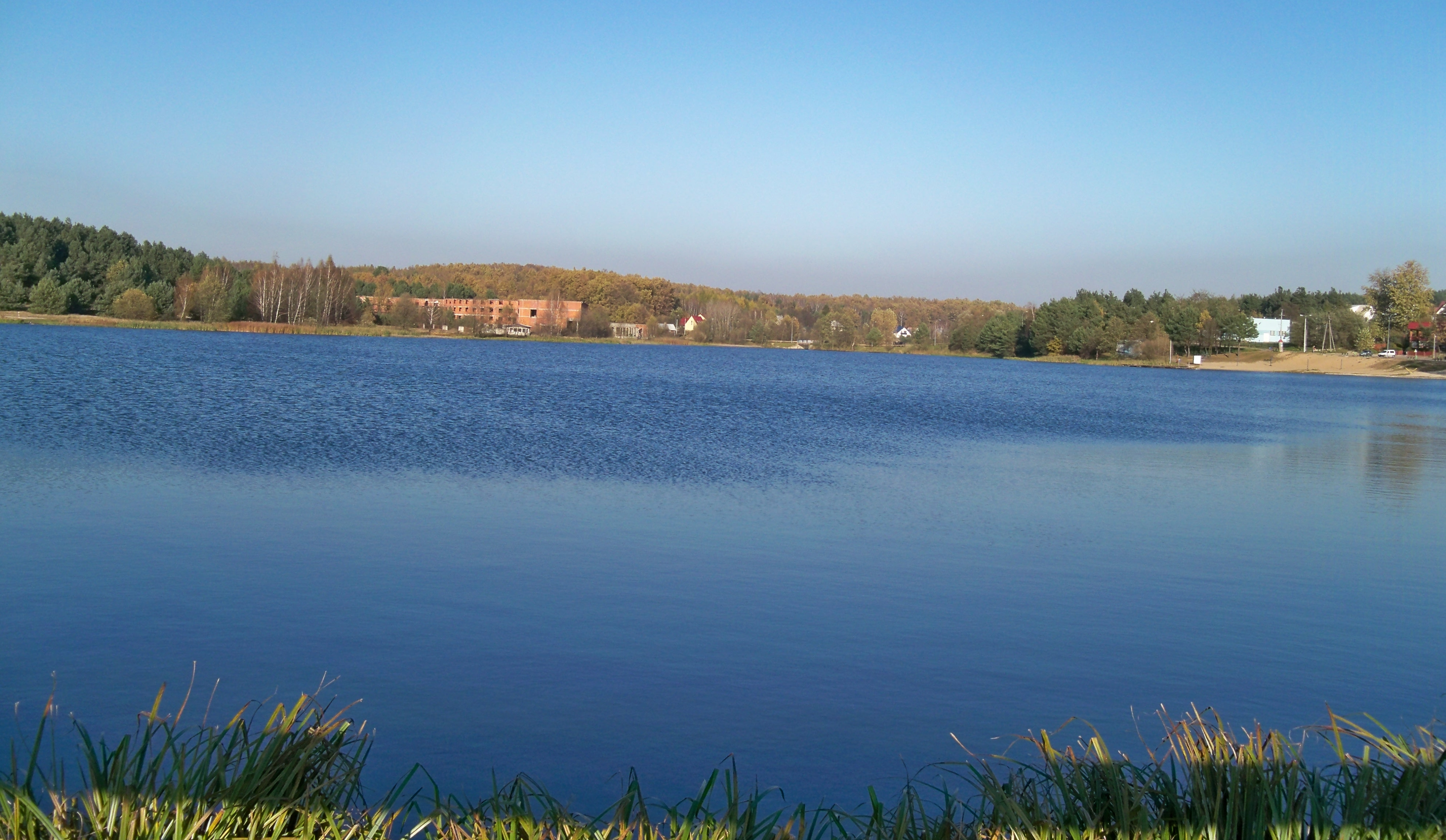 Water reservoir in Siemiatycze, Poland.